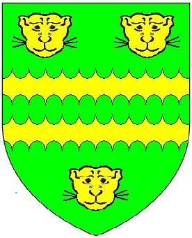 Arms of Child Baronets (of the City of London): Vert, two bars engrailed between three lions faces or. (Betham, The Baronetage of England, Vol. III, 1803, p.71)